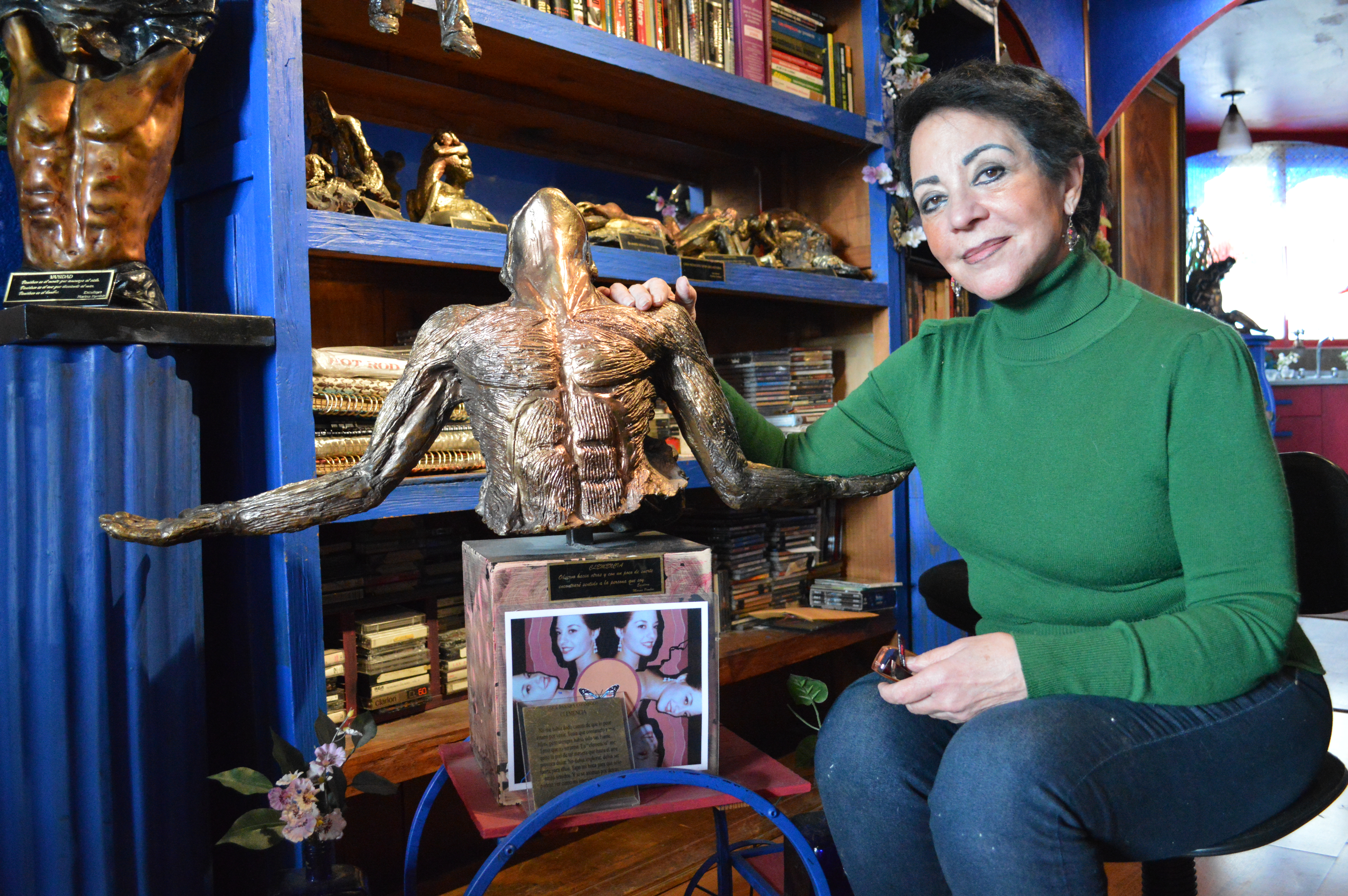 Marina Pombar Cabrera with her sculpture "Clemencia" at her home in Mexico City